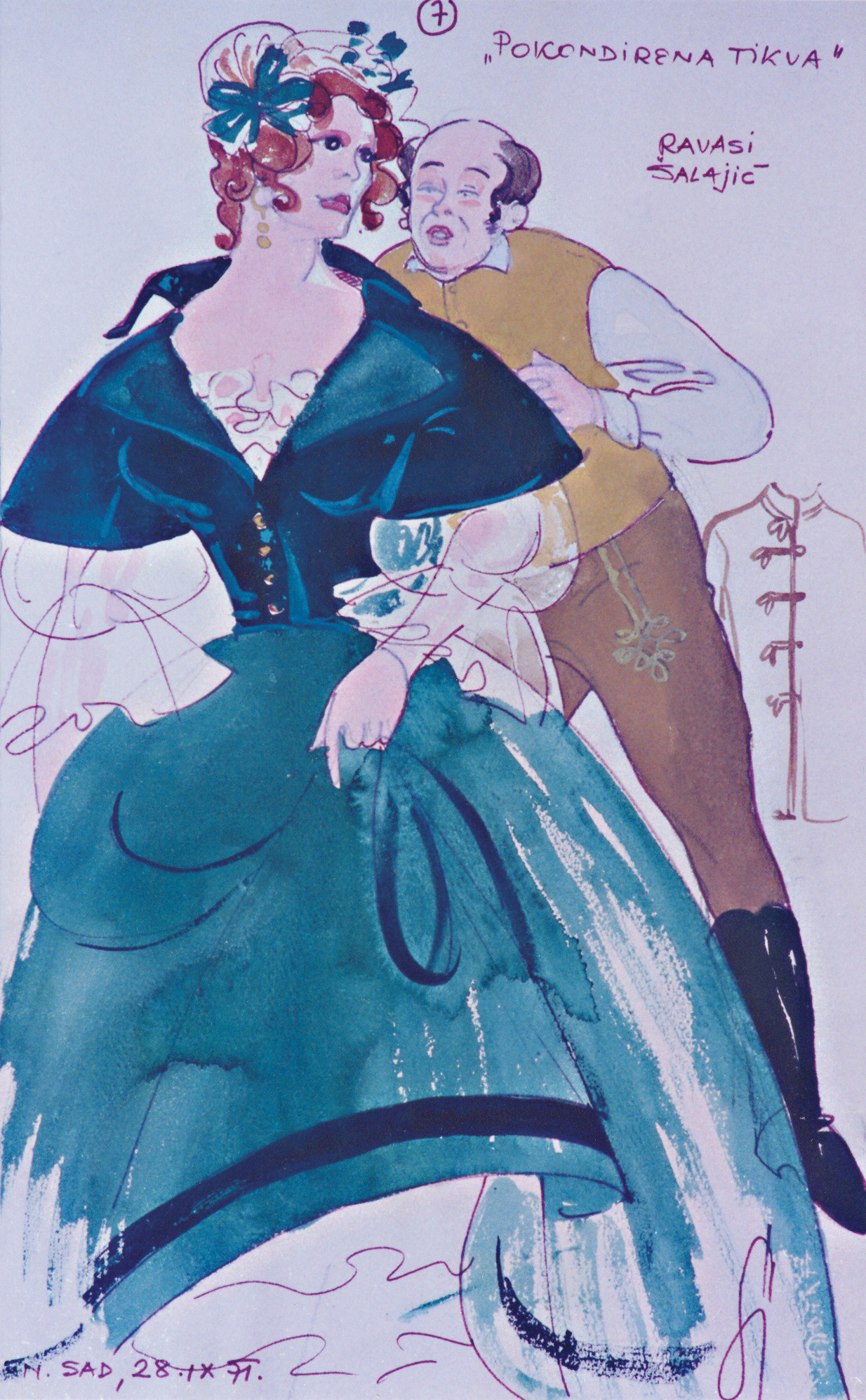 "Pokondirena tikva", costume sketch designed by Stanislava Stana Jatić (1919-2014), costume designer of Serbian National Theatre in Novi Sad, 1971. Srpski (latinica): "Pokondirena tikva", skica kostima koju je izradila Stanislava Stana Jatić (1919-2014), kostimografkinja Srpskog narodnog pozorišta u Novom Sadu, 1971. Српски (ћирилица): "Покондирена тиква", скица костима коју је израдила Станислава Стана Јатић (1919-2014), костимографкиња Српског народног позоришта у Новом Саду, 1971.